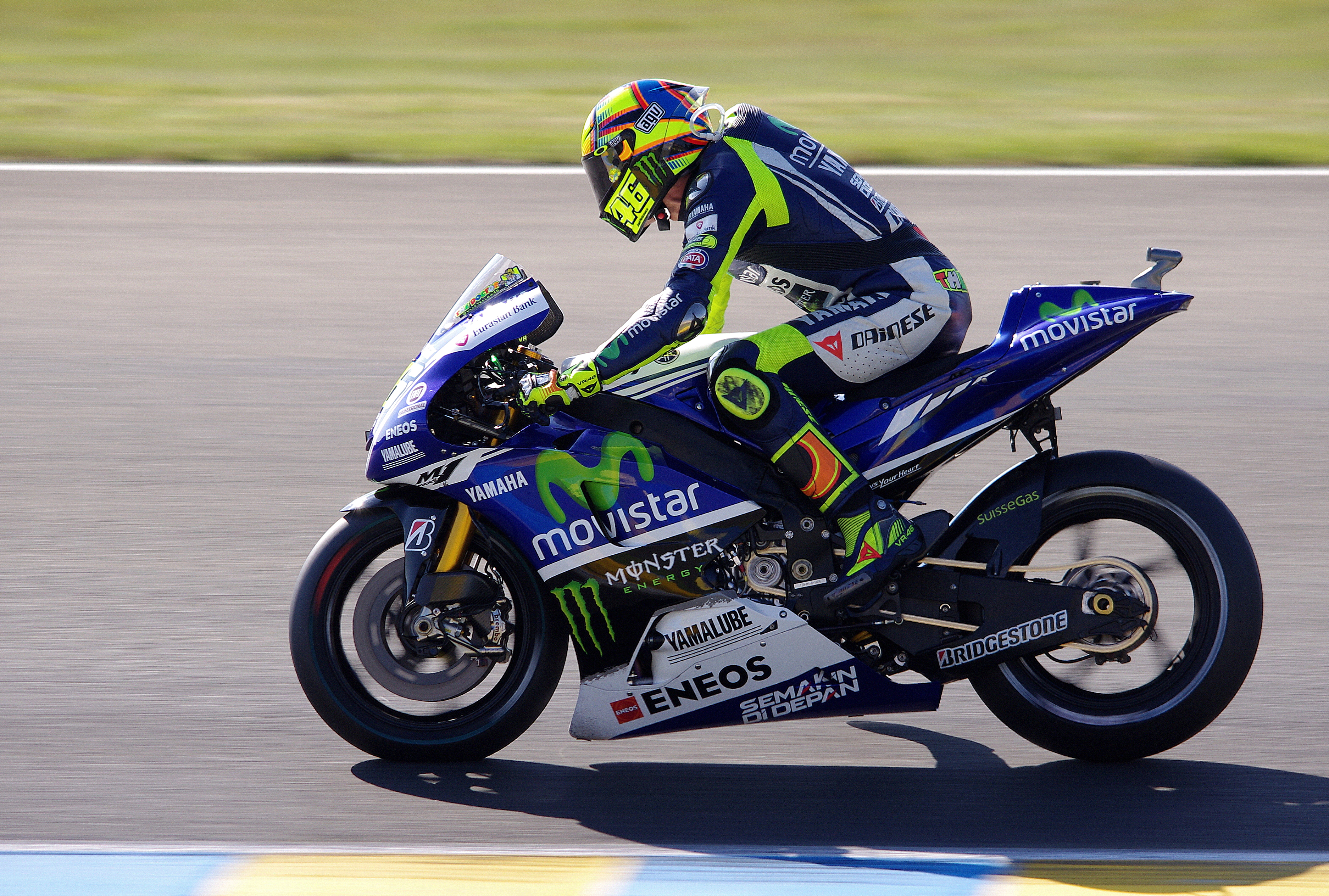 Valentino ROSSI - Movistar Yamaha MotoGP - MotoGP 2014 - Le Mans 2014 french motorcycle Grand Prix at Le Mans Bugatti Circuit